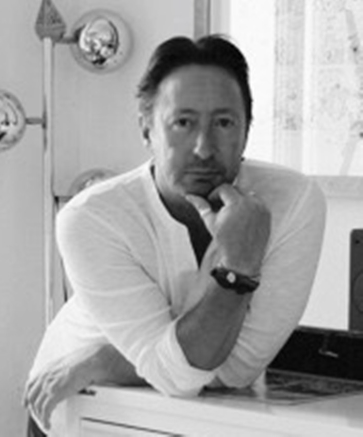 Julian Lennon at home in 2015.